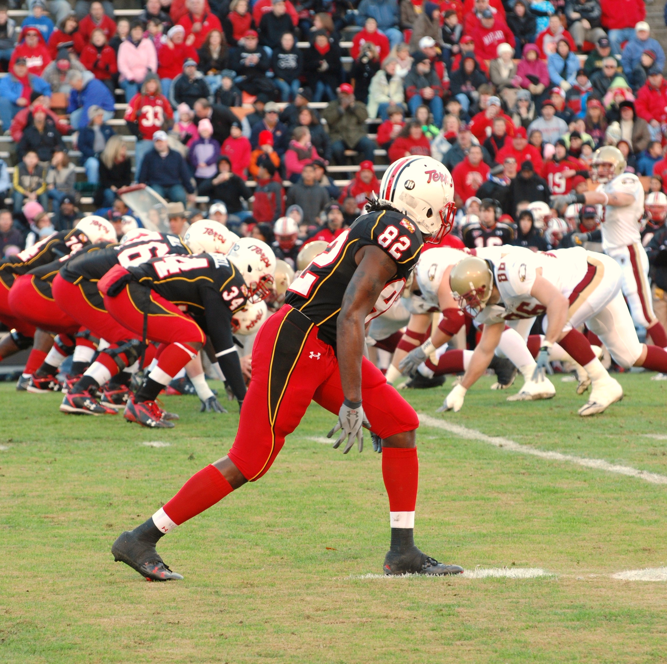 Torrey Smith with the Terrapins in 2009.